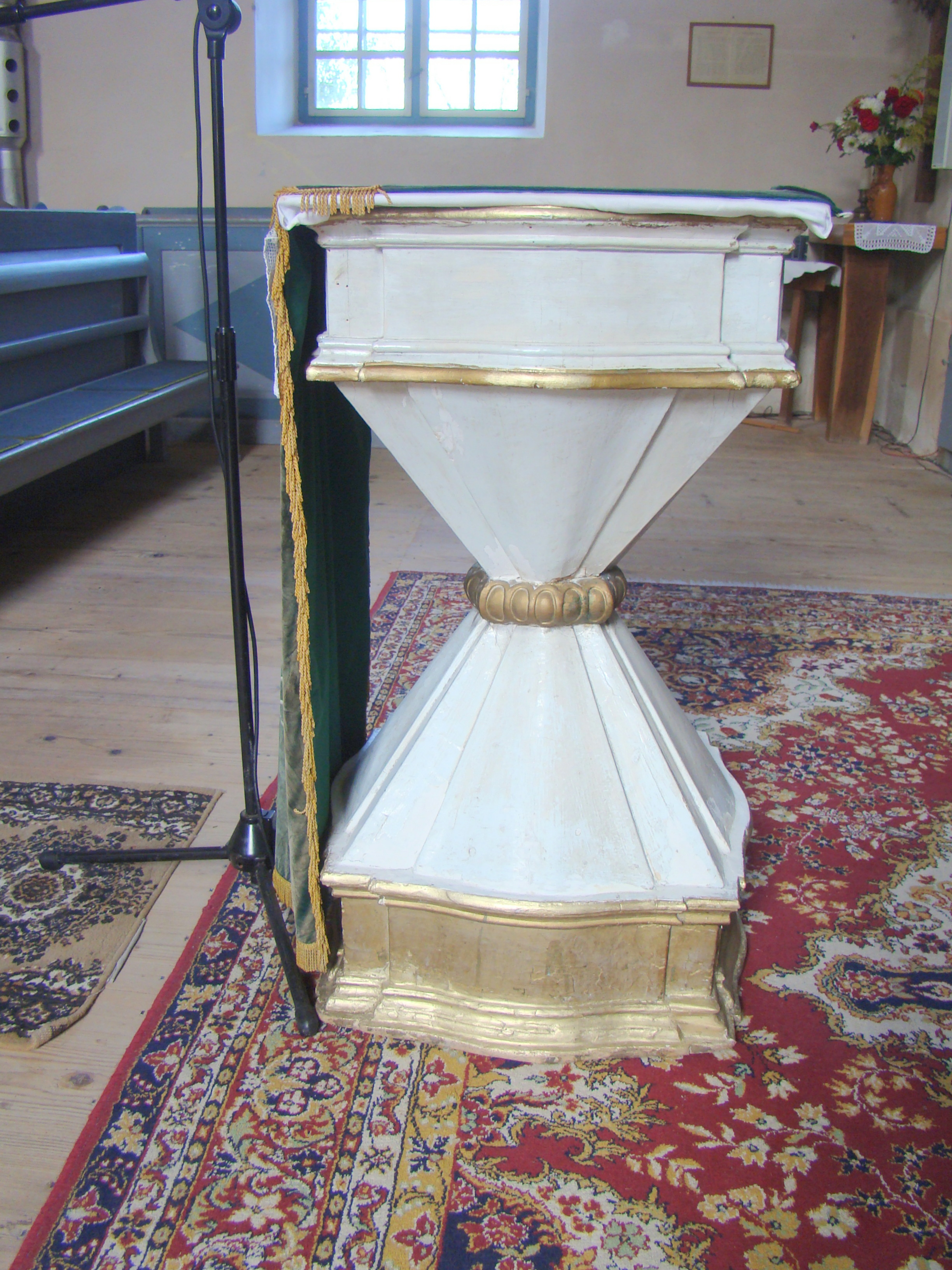 Lutheran church in Făgăraș, Brașov County, Romania